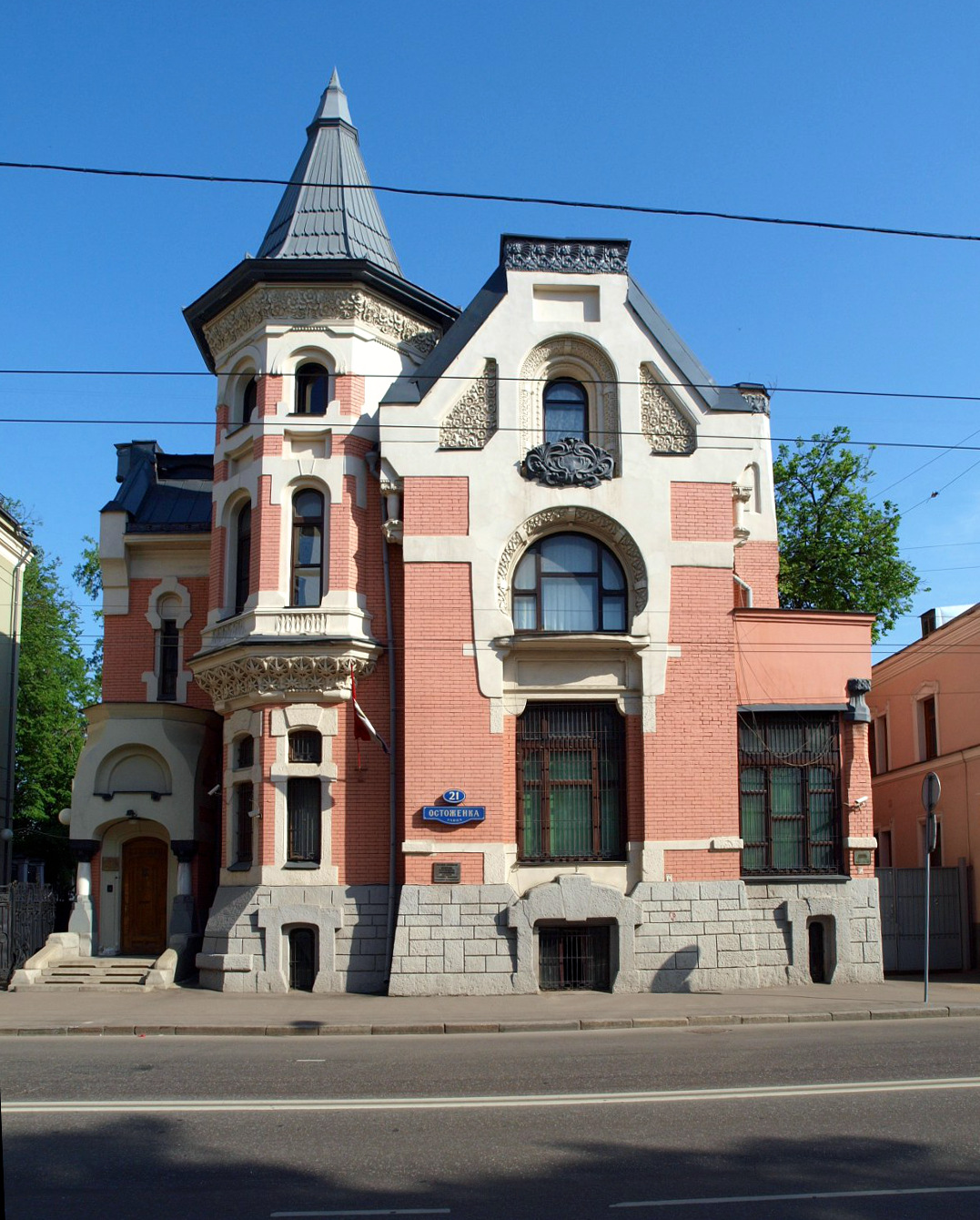 Moscow, Ostozhenka Street.